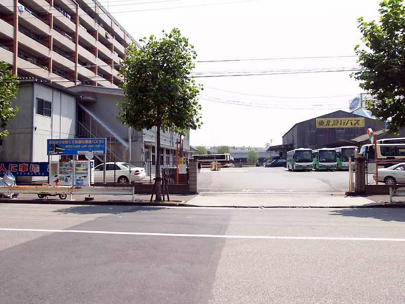 Tokyo Depot of Tohoku Express (Tohoku Kyuko Bus) in Shinonome, Koto ward, Tokyo, Japan